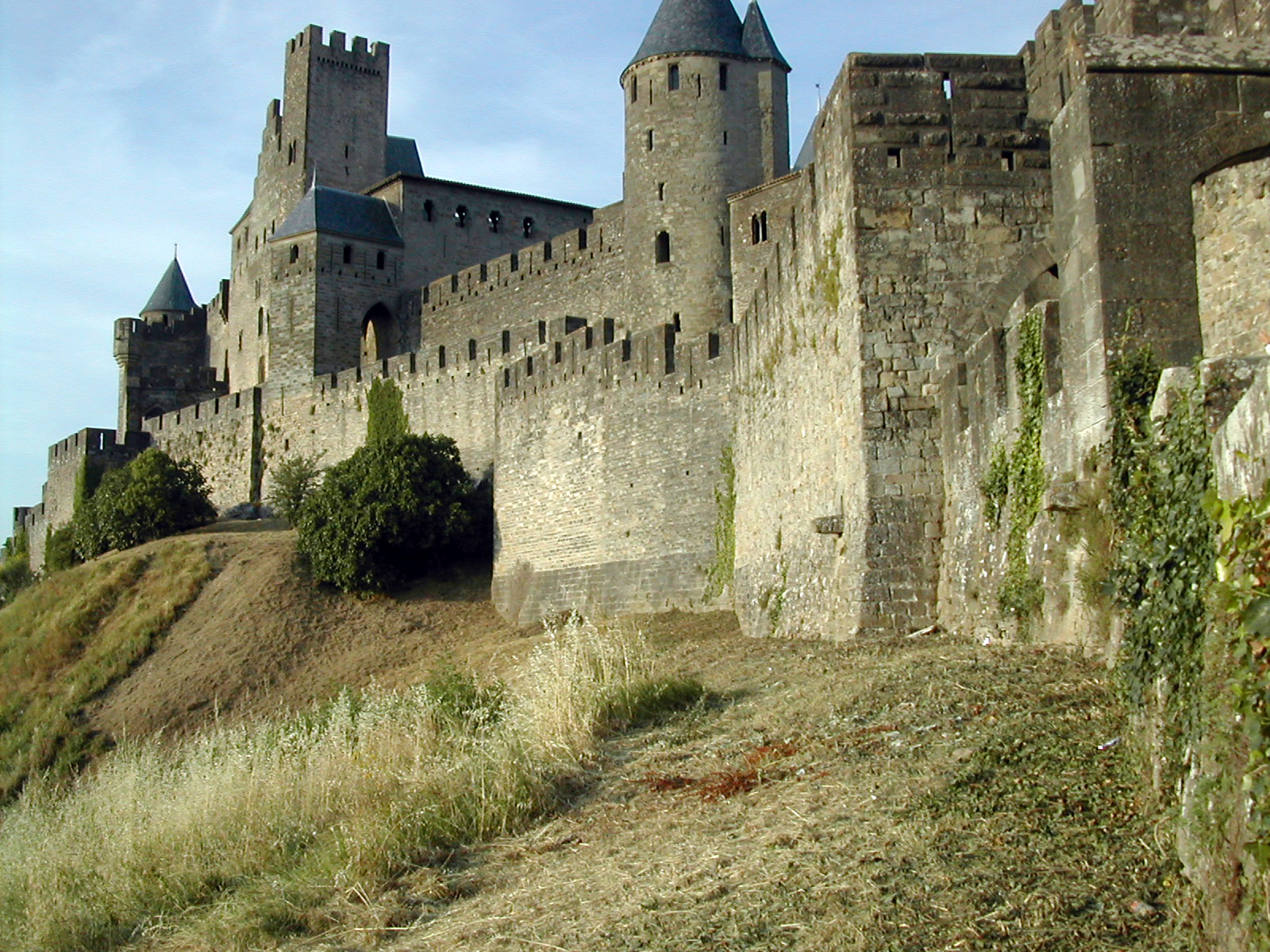 The Carcassonne Castle